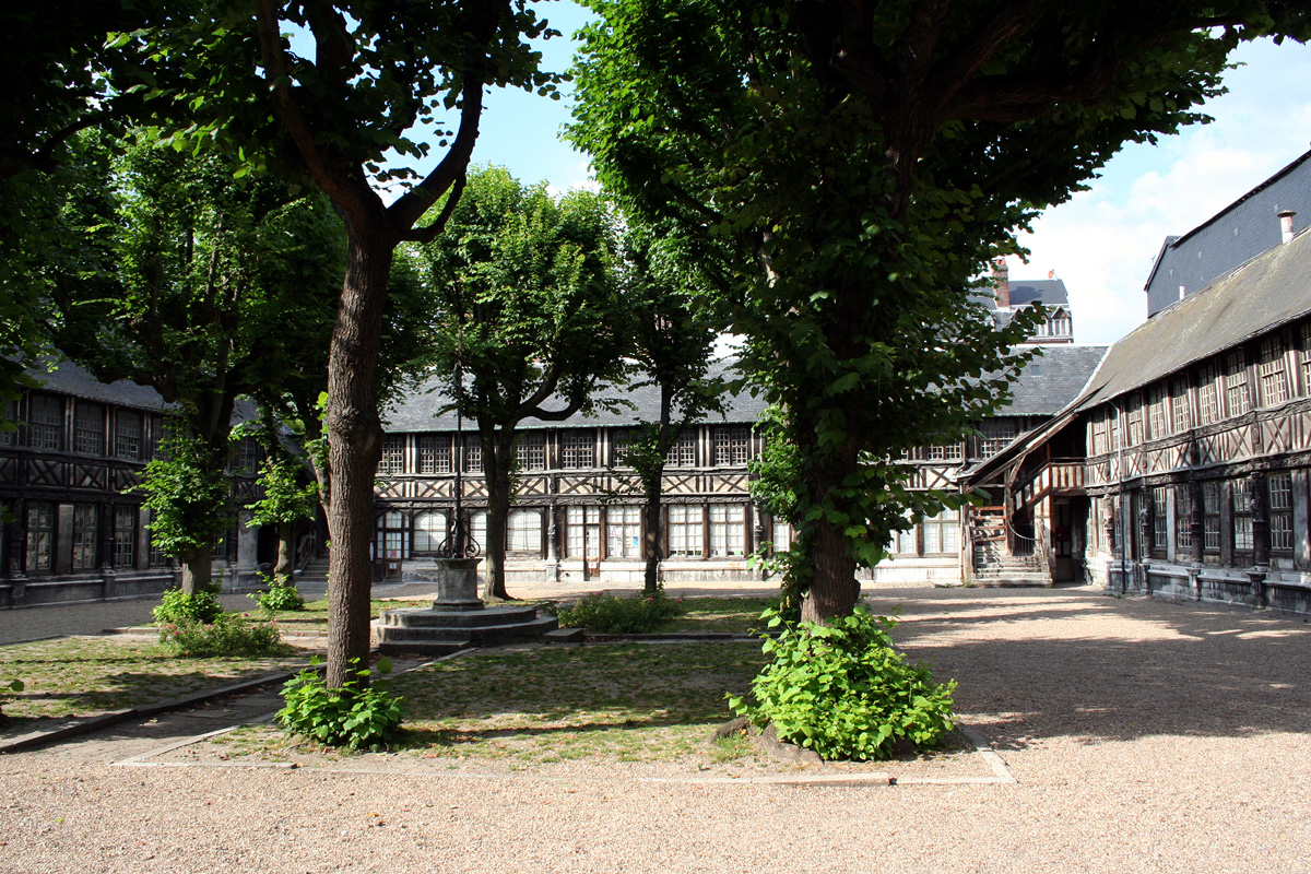 Rouen, the fine arts school, located in an ancient leper colony.